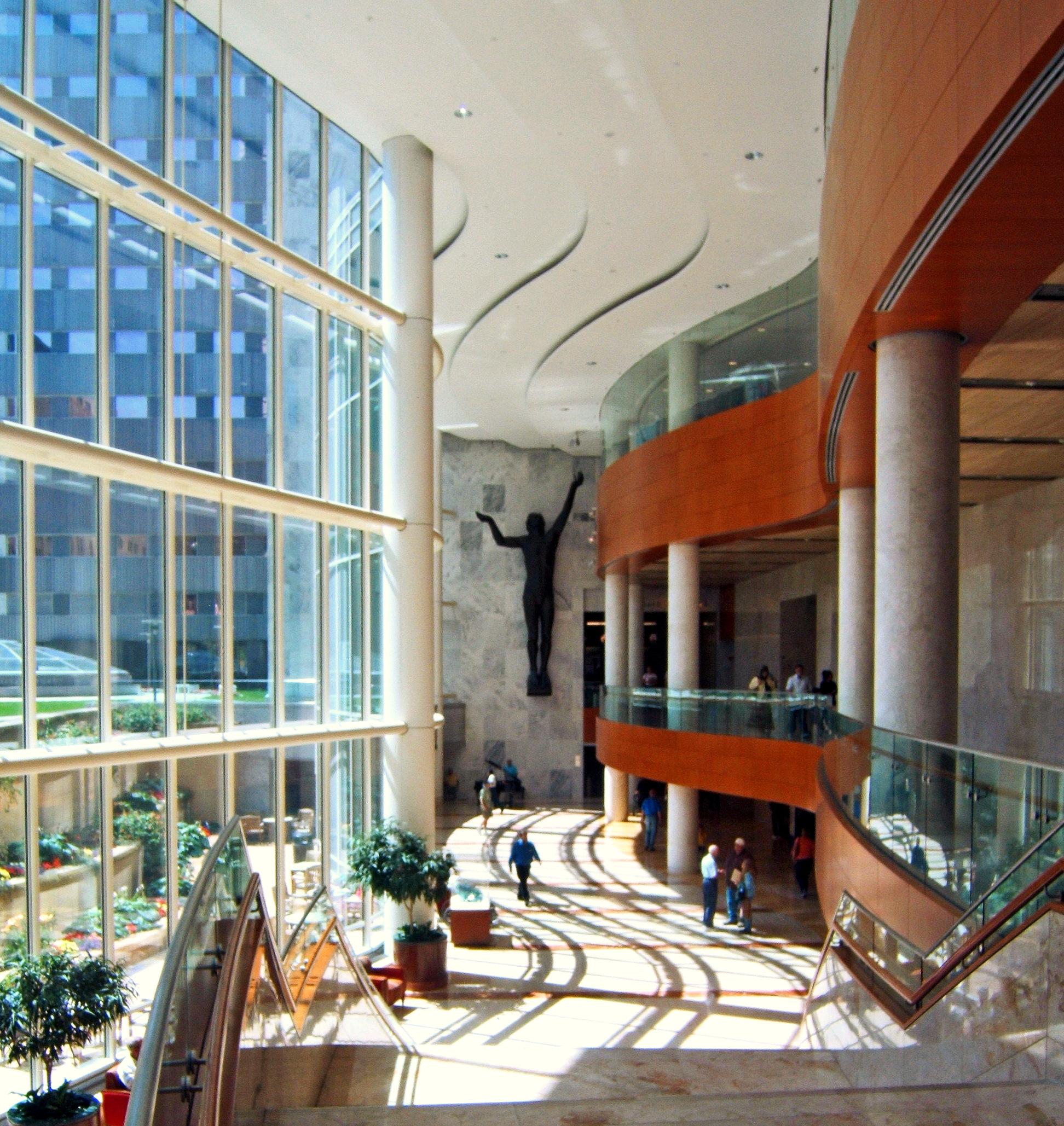 Atrium inside Mayo Clinic Gonda Building, Rochester, Minnesota